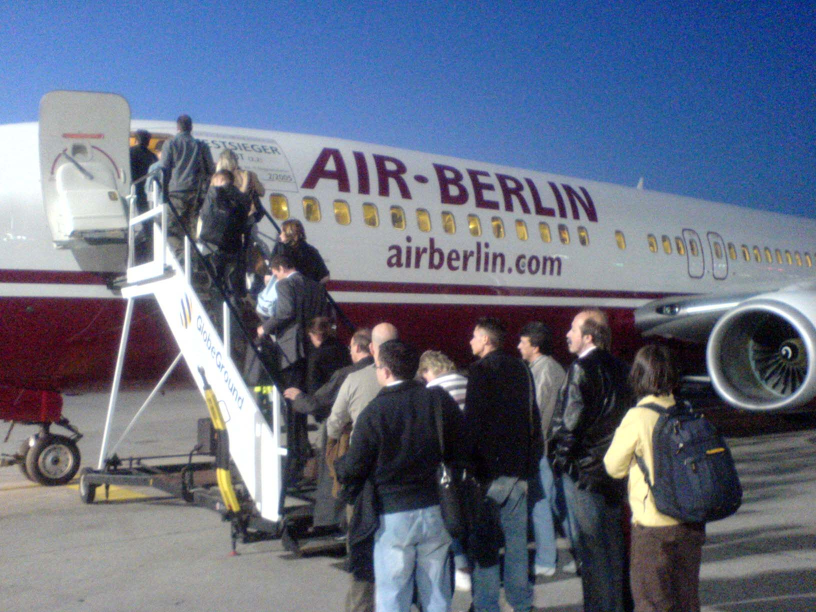 Boarding on apron position in Berlin-Tegel (TXL/EDDT) D-ABAX.